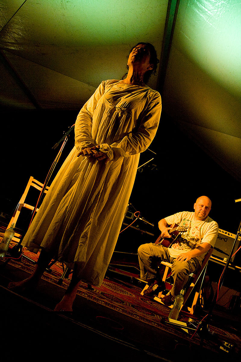 Iva Bittová and Vladimír Václavek on the: Svátek čaje (EU - Těšín).